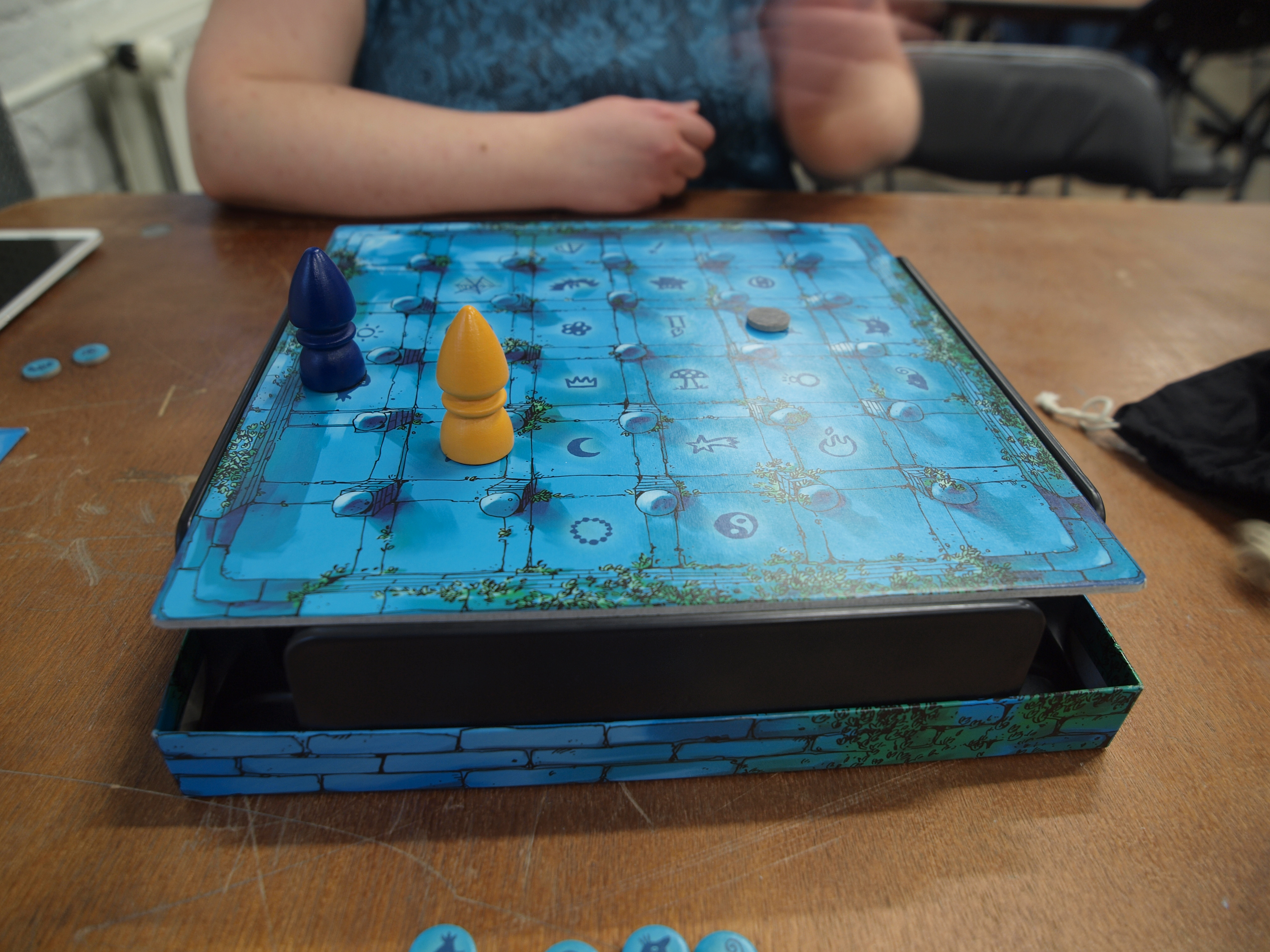 A game of The Magic Labyrinth being played at the annual board game festival of Finland in Helsinki, Finland.